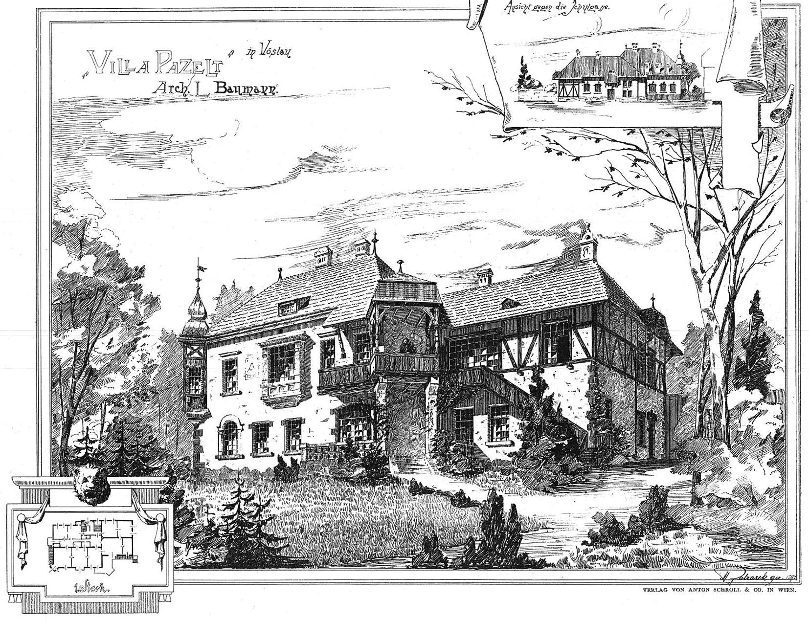 Villa Eugen Ritter von Pazelt nach dem Entwurf von Arch. Ludwig Baumann. Standort: (Bad) Vöslau, Niederösterreich.